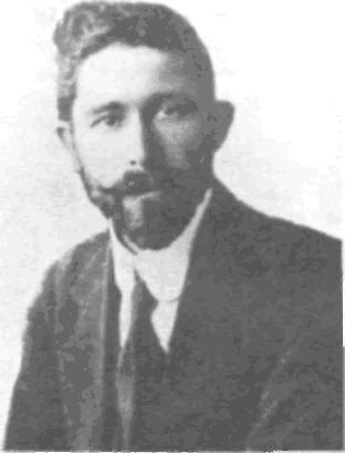 Portrait of IMARO member Chudomir Kantardzhiev from Sliven